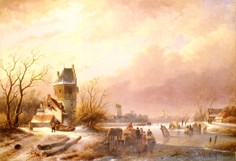 Skaters On A Frozen River